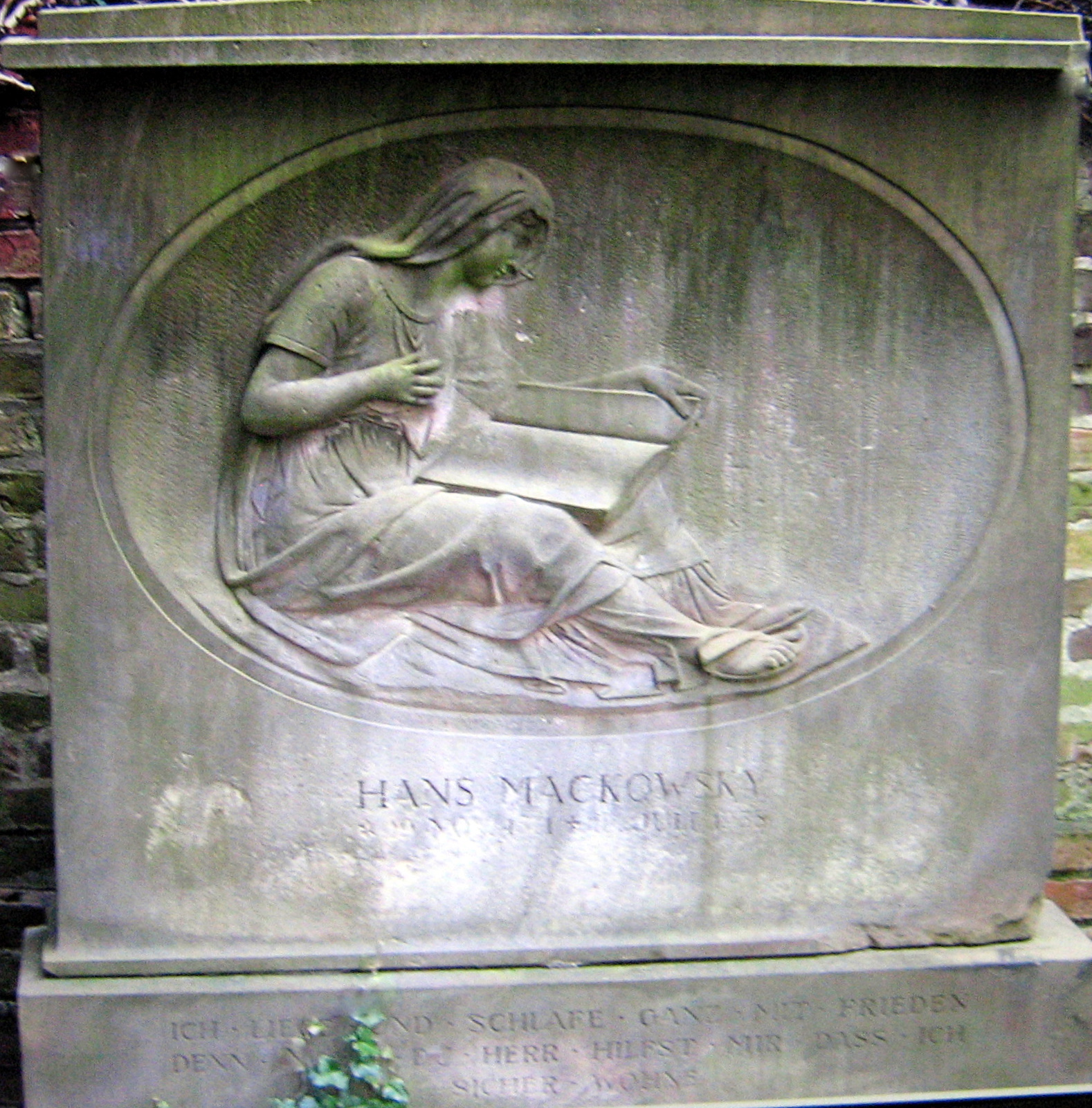 Mackowsky, Hans (1871-1938)